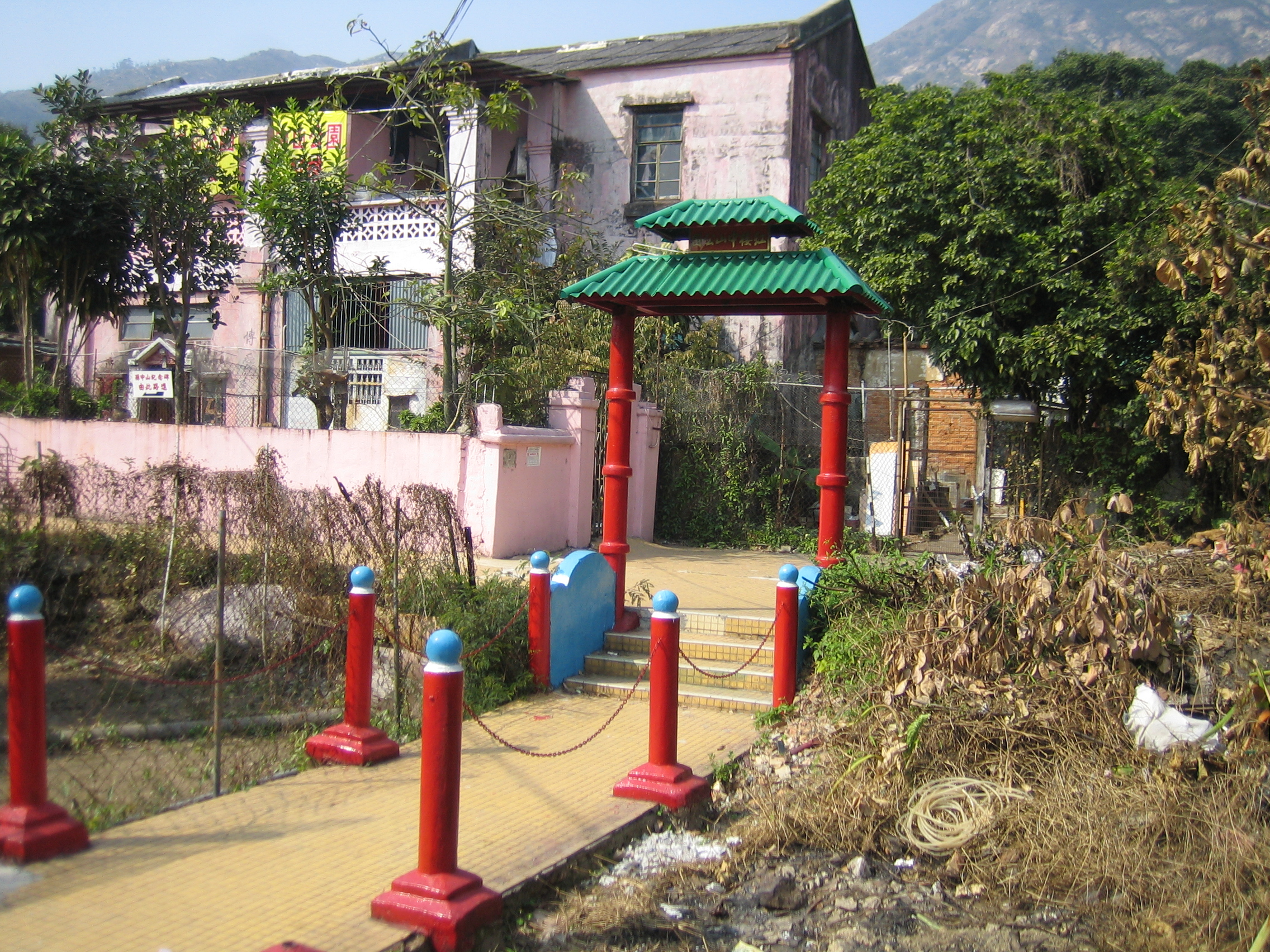 Hung Lau, Tuen Mun, Hong Kong. If you have any questions about the licensing (like cc-by-sa, GFDL), or you want to republish the image without using the licensing shown as below, you are welcome to leave a message on the User Talk Page of my Chinese Wikipedia account.